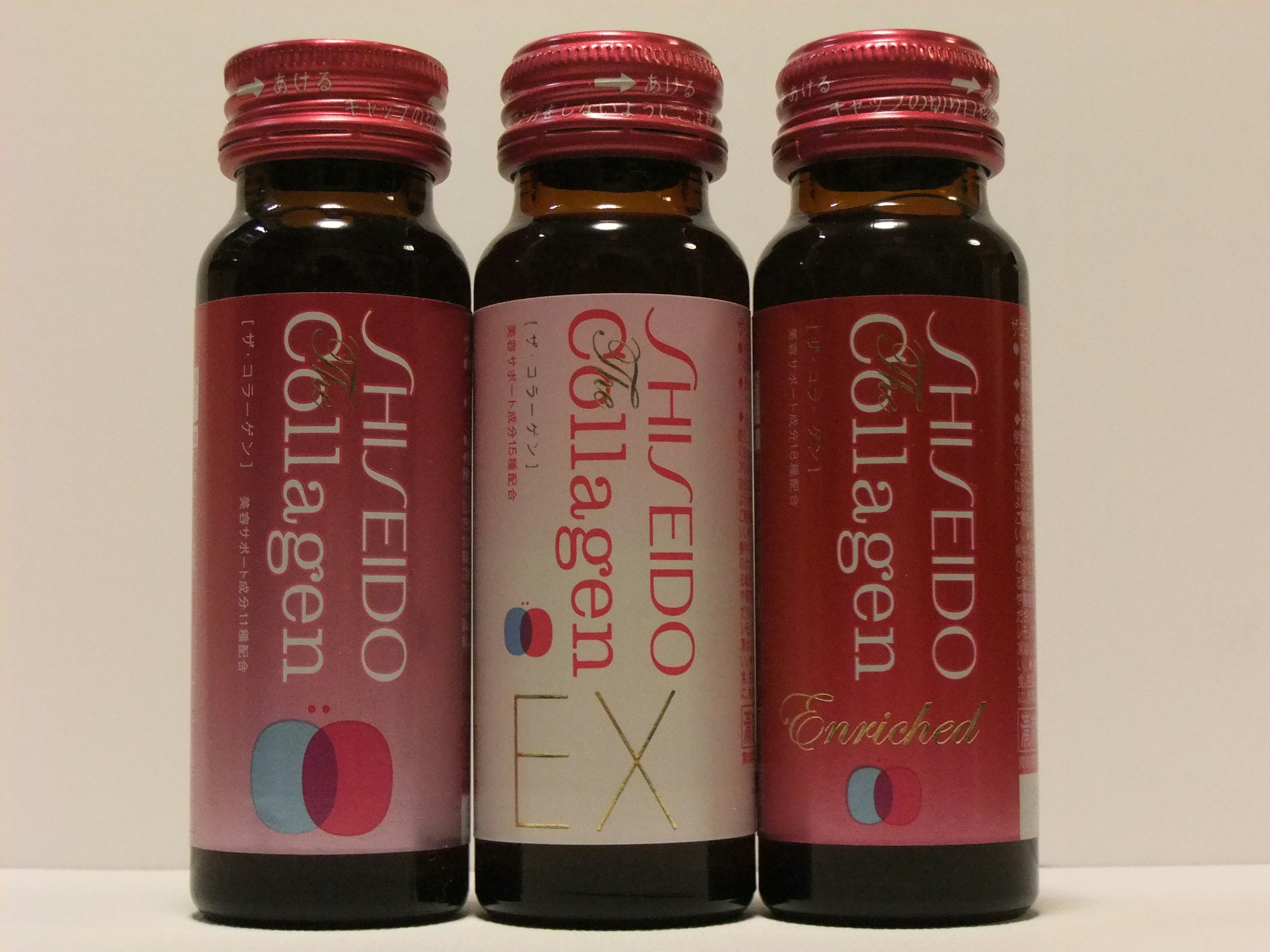 Shiseido, The Collagen is 3 types, (Left-side / The Collagen; Center / The Collagen EX; Right-side / The Collagen En-riched)